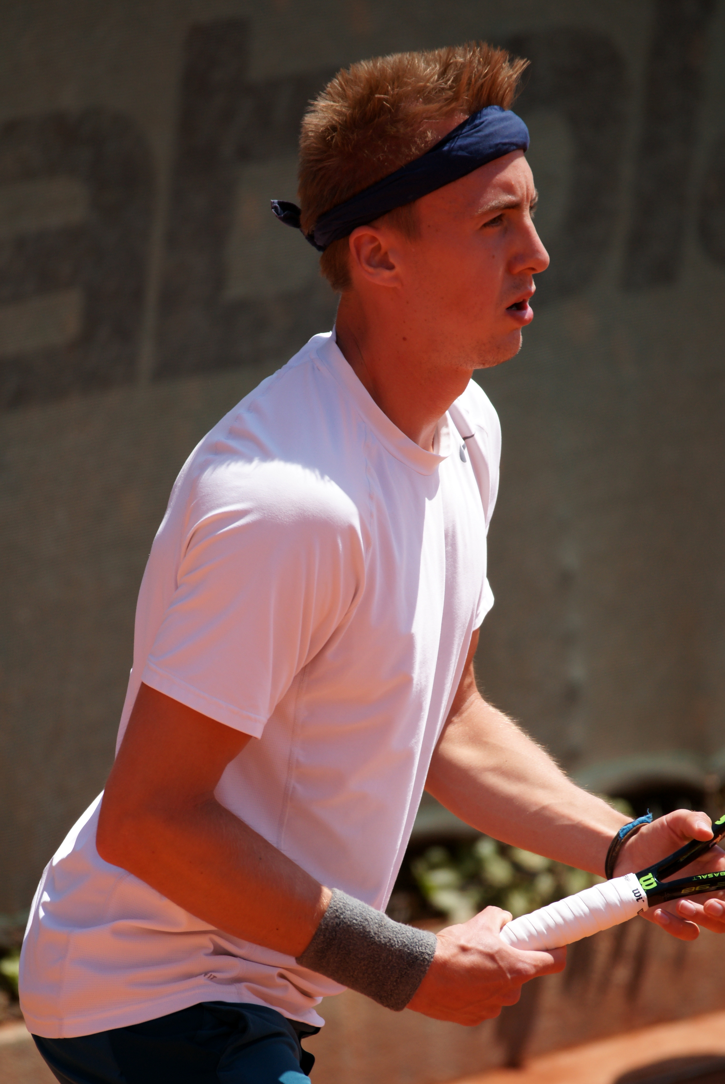 Bastian Trinker, Nice Open ATP 2015